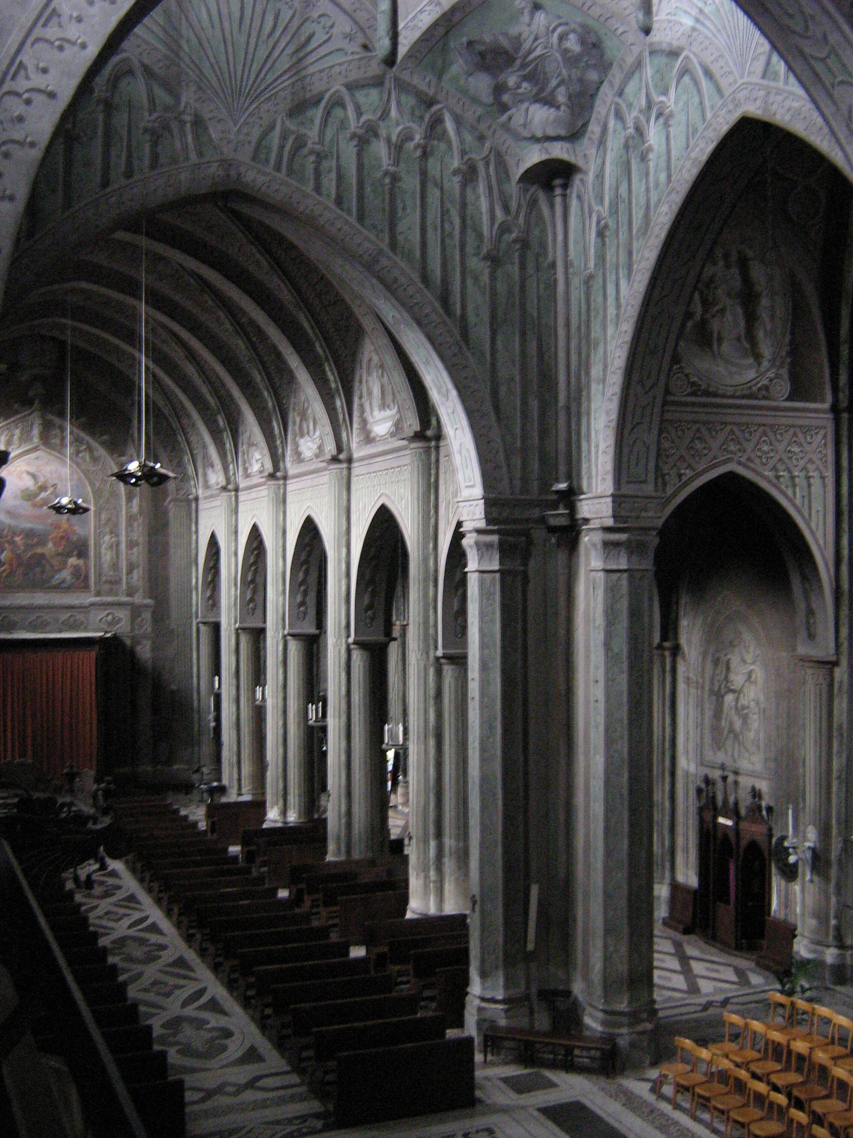 Cathedral in Biella, Italy. Masterpiece of Trompe l'oeil. Photo by Leonardo Ciampa, 7 June 2007.